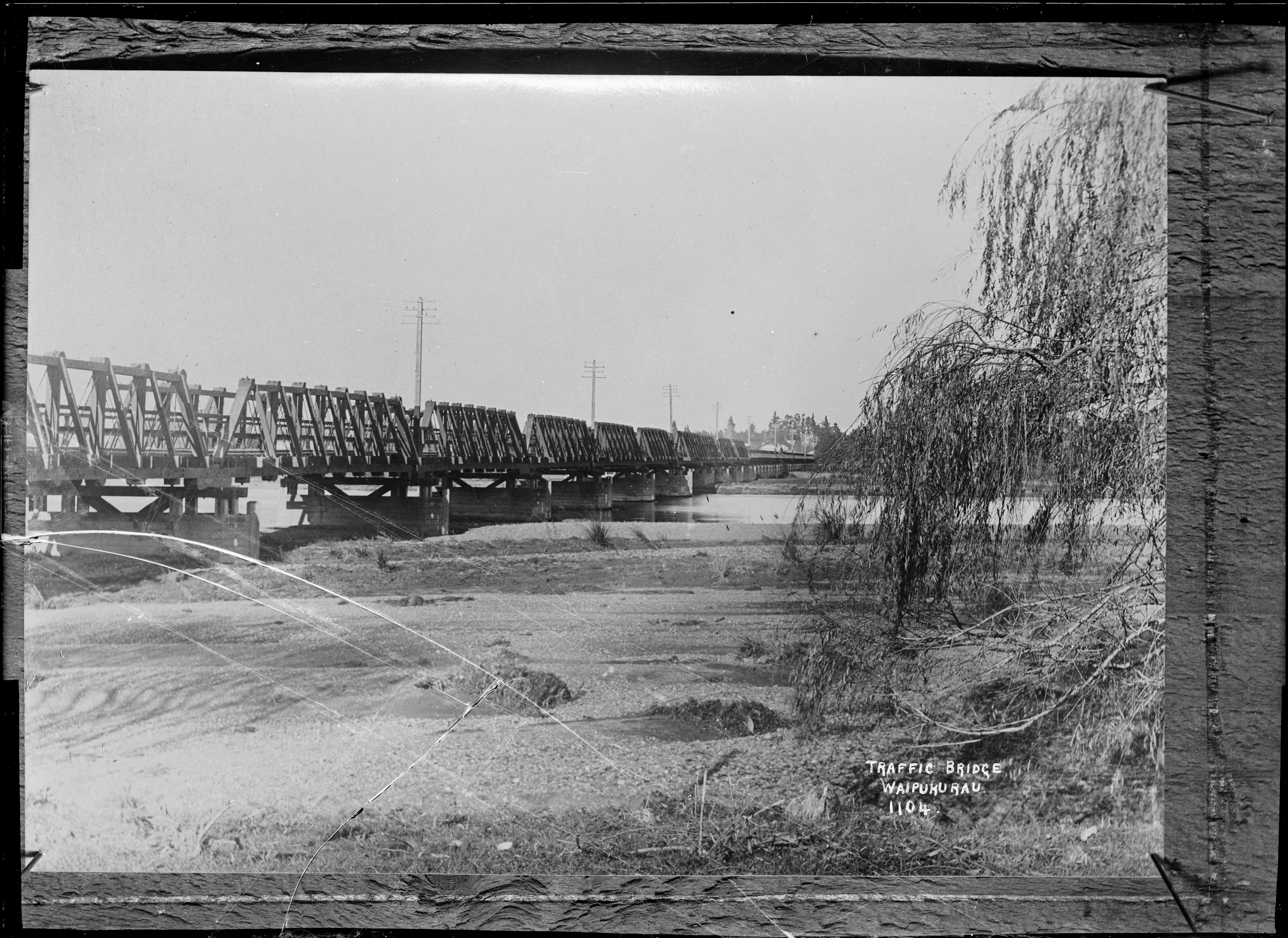 View of the Waipukurau traffic bridge across the Tukituki River. Photograph taken by William Archer Price, circa 1910s Inscriptions: Inscribed - Photographer's title on negative -bottom right: Traffic bridge. Waipukurau. 1104. Quantity: 1 b&w original negative(s). Physical Description: Dry plate glass negative 4.5 x 6.5 inches Waipukurau traffic bridge. Price, William Archer, 1866-1948 :Collection of post card negatives. Ref: 1/2-000224-G. Alexander Turnbull Library, Wellington, New Zealand.